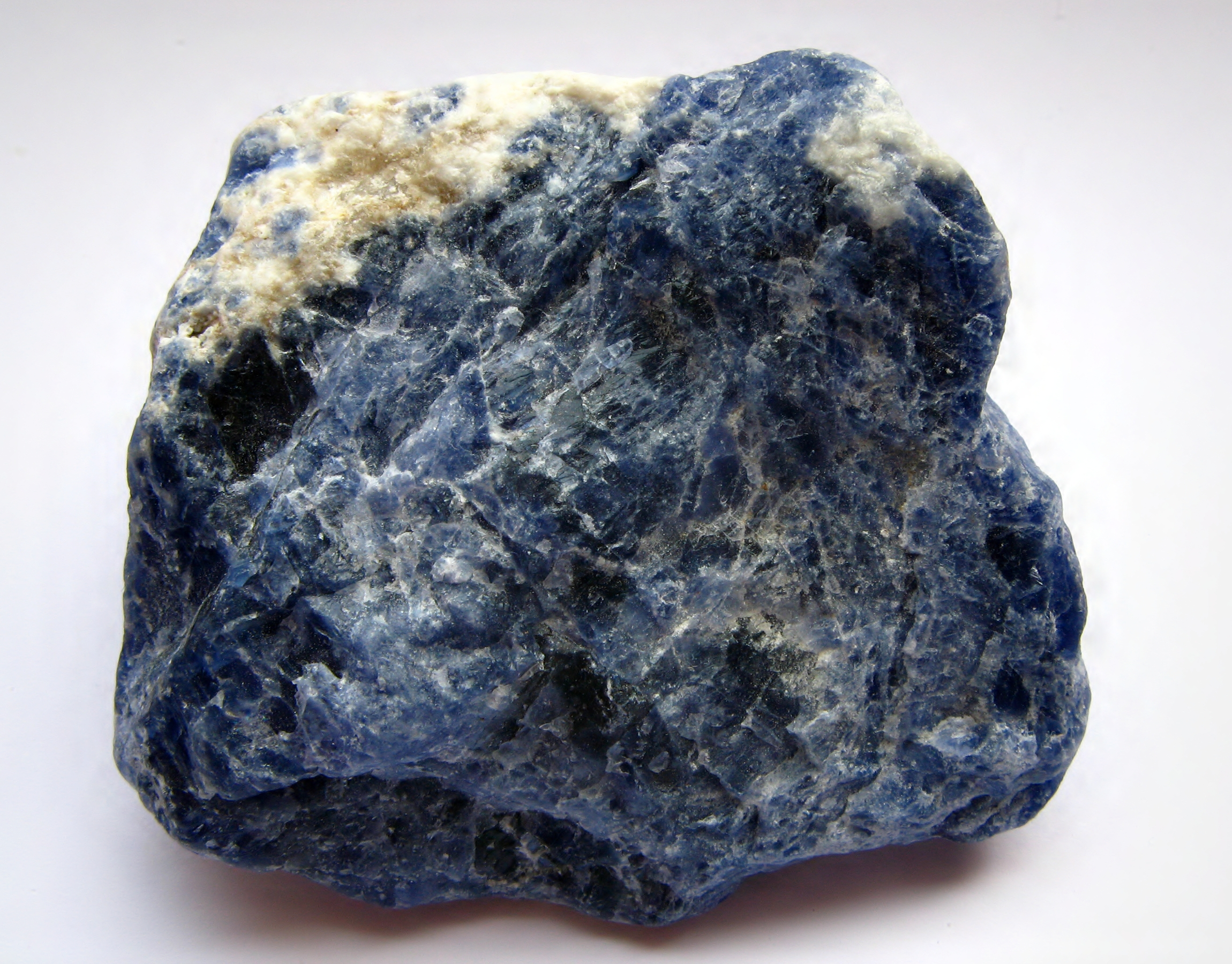 Sodalite - raw stone